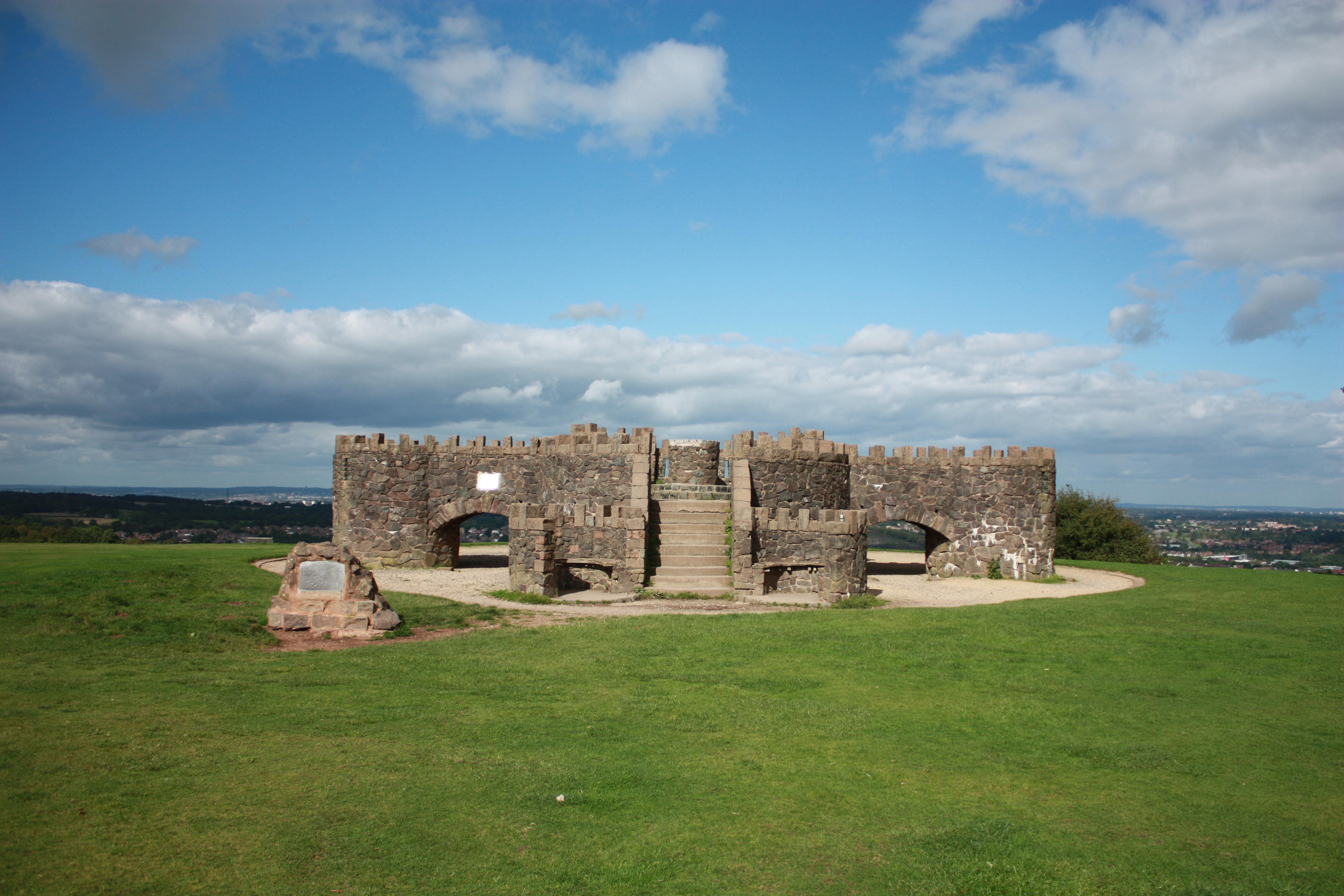 The toposcope on top of Beacon Hill, a constituent hill of the Lickey Hills Country Park. The toposcope has views over the city of Birmingham and surrounding areas